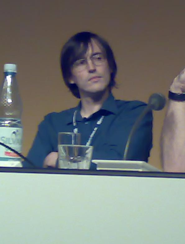 Larry Ewing taking part in a panel discussion at LinuxTag 2007 in Berlin